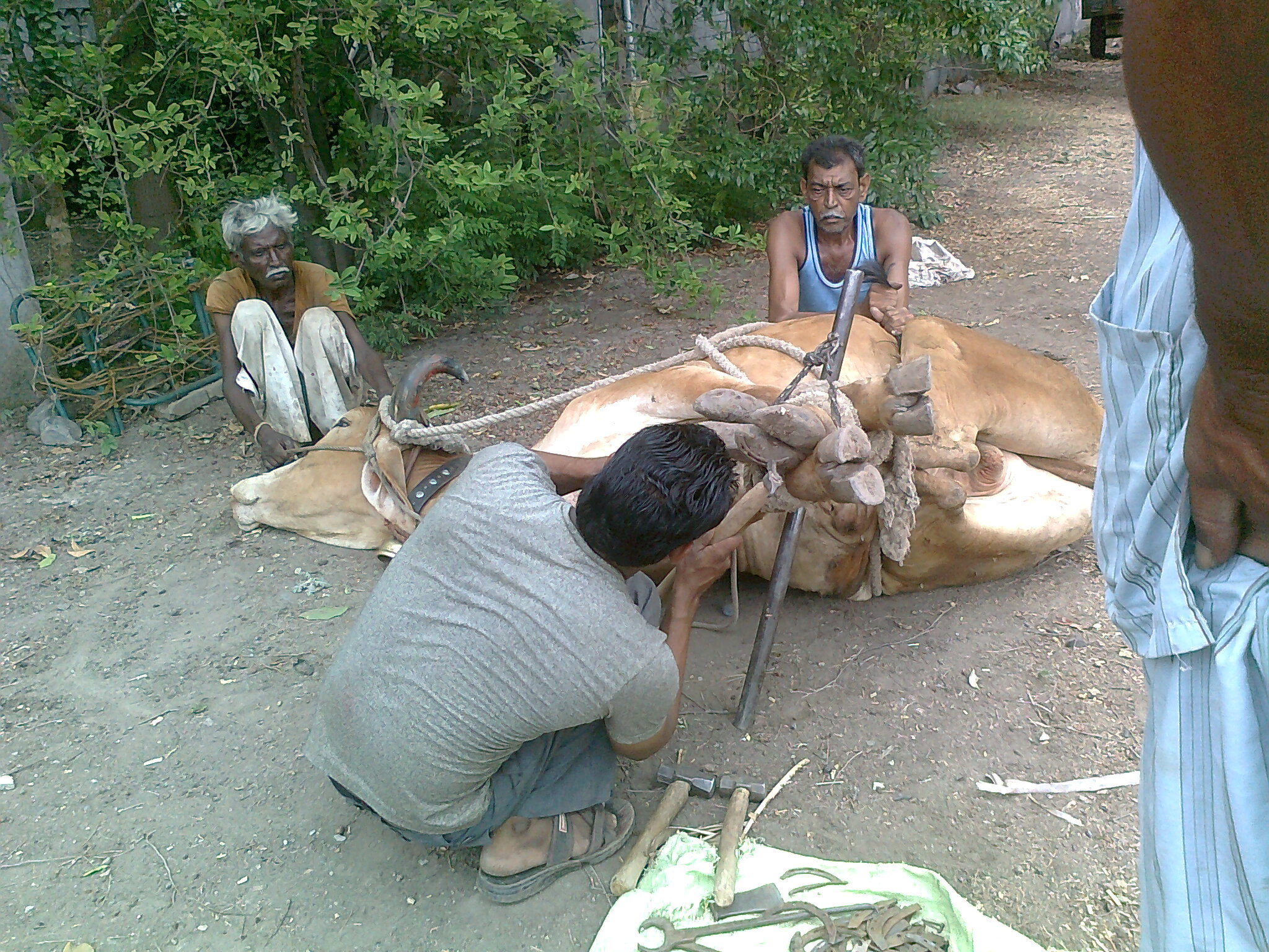 A horseshoe like iron plate (called 'naal' in Marathi) is being nailed on the hooves of a bull at Chinawal village, India